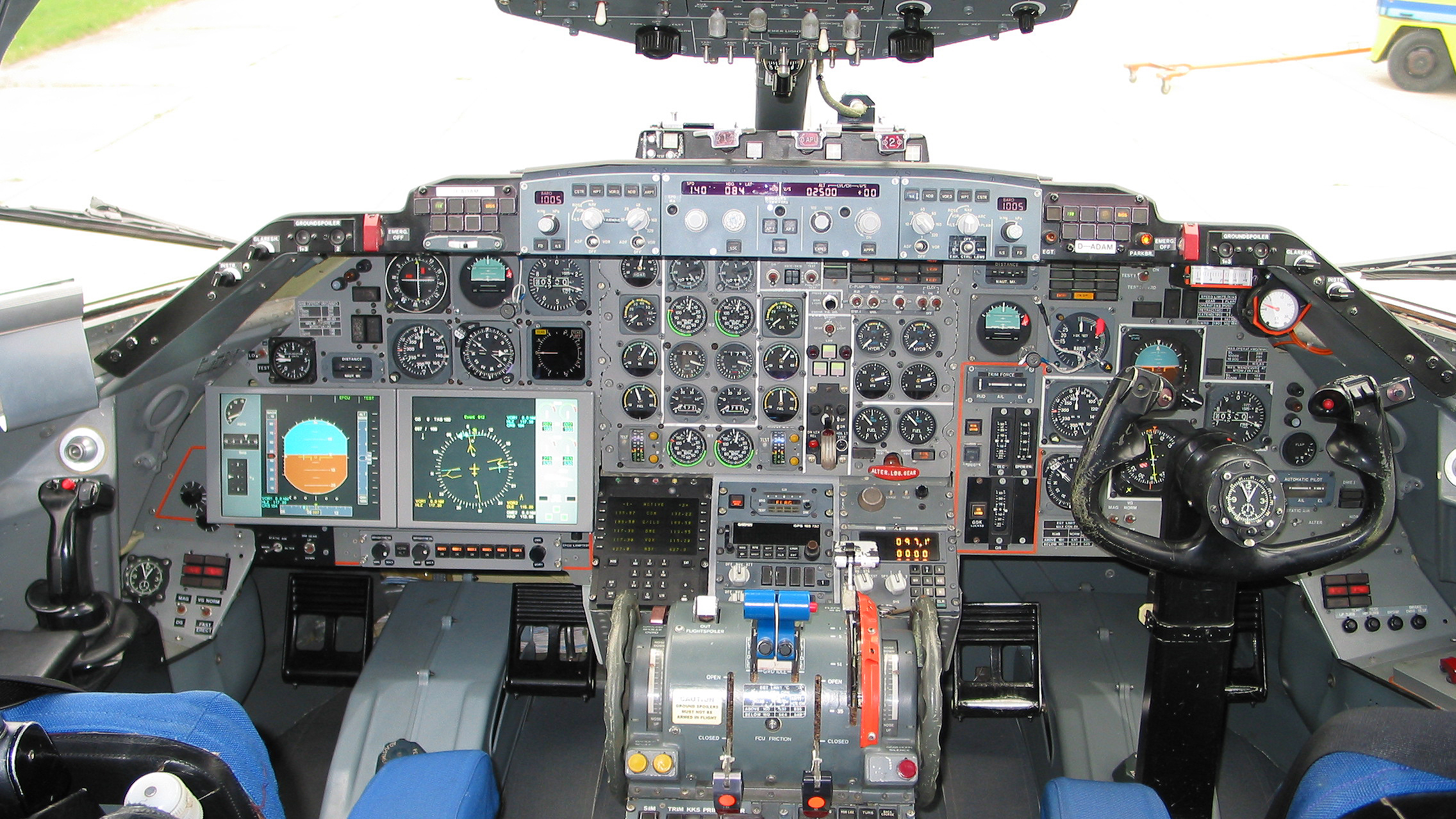 VFW 614 ATTAS Cockpit.